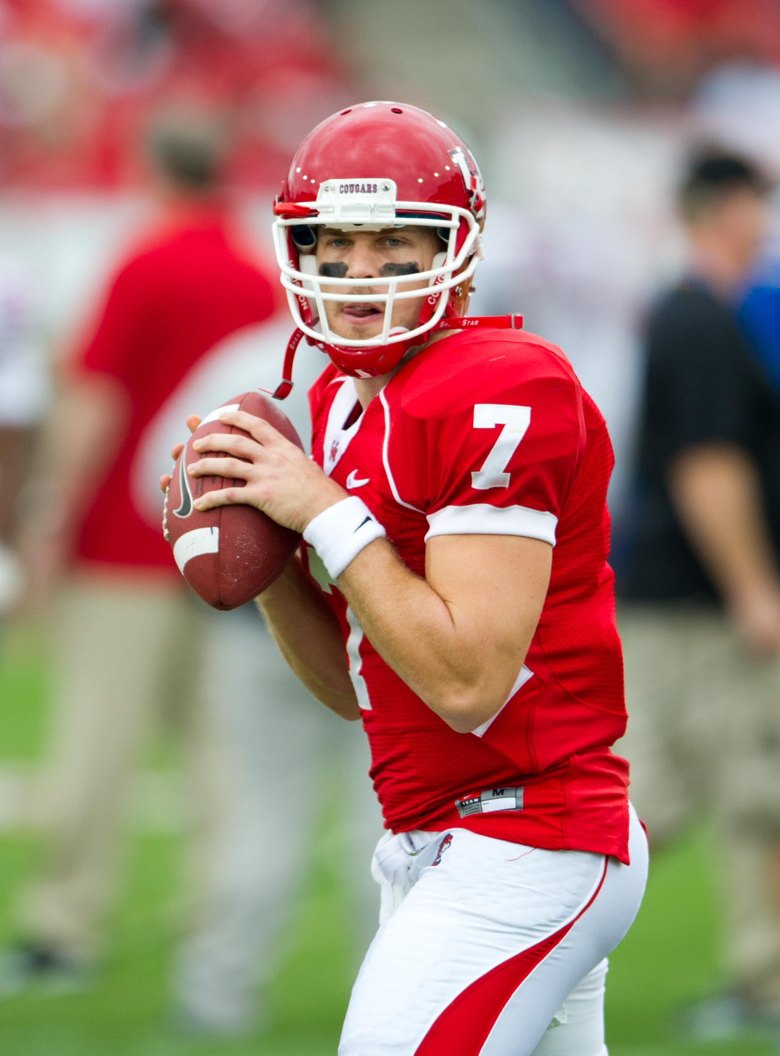 University of Houston 2011 quarterback Case Keenum #7 throws in pre-game drills before a game against Southern Methodist University.